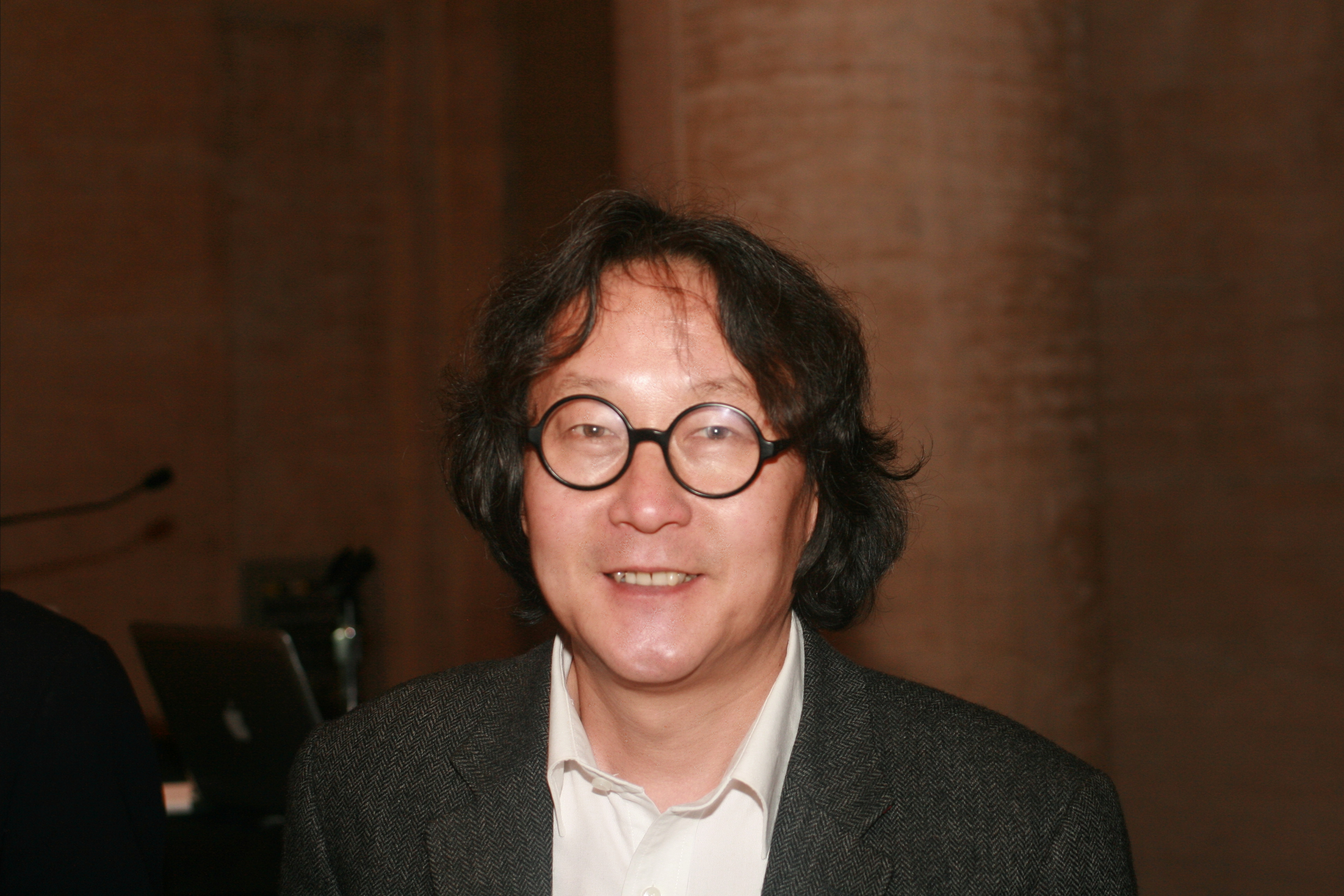 Chinese artist Xu Bing at the Asian Art Museum of San Francisco in San Francisco, California, United States on January 28, 2011. The event, "A Talk with Xu Bing," was co-sponsored by the Asian Art Museum and the Asia Society.